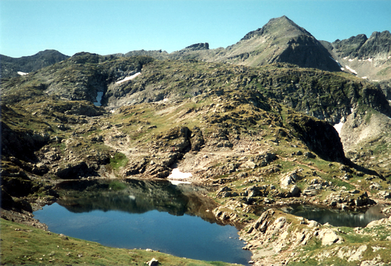 Klafferkessel in Schladminger Tauern, Styria; with Greifenberg (2618m), seen from NE